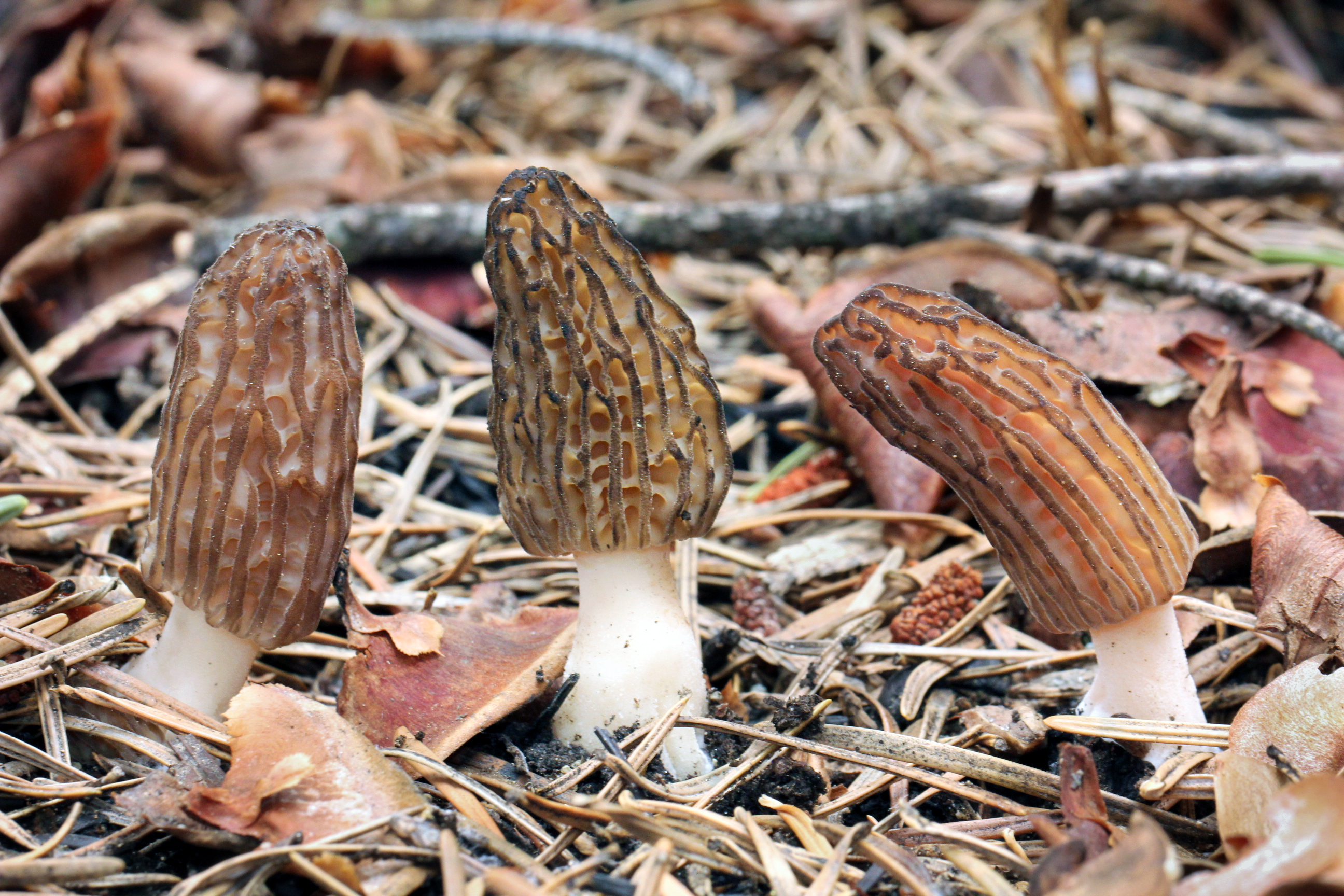 Fruit bodies of the morel fungus Morchella sextelata M.Kuo. Specimens photographed in Yosemite National Park, California, USA.